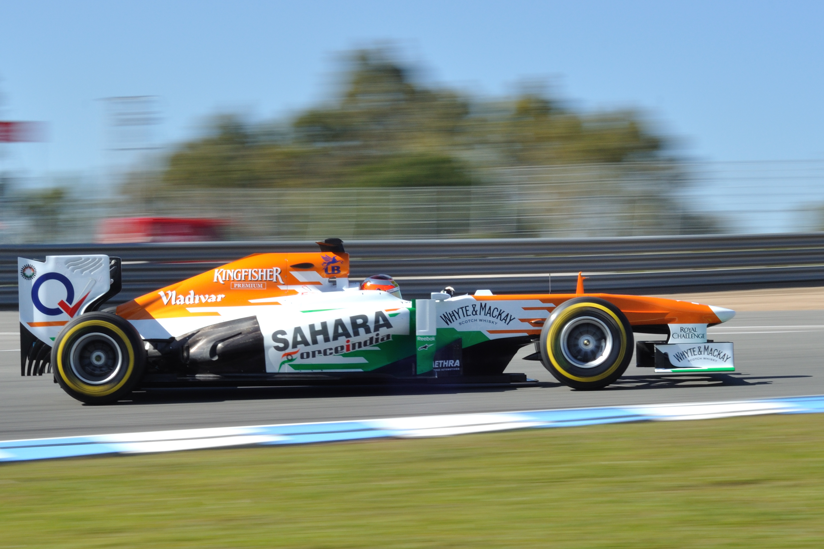 Jules Bianchi tests the Force India VJM006 ahead of his rookie F1 season.